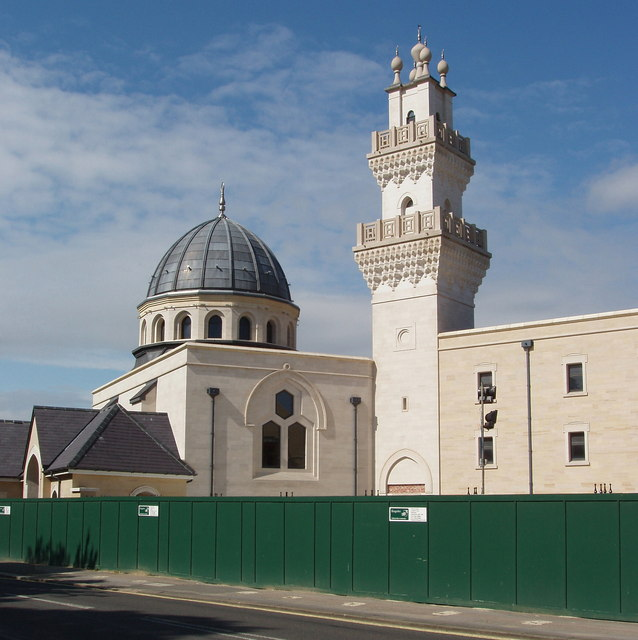 Oxford Centre for Islamic Studies (OCIS), Marston Road, Oxford. OCIS was established in 1985 and is a Recognised Independent Centre of the University of Oxford. The photo shows its new building on the Marston Road, just across the Cherwell from Magdalen College.